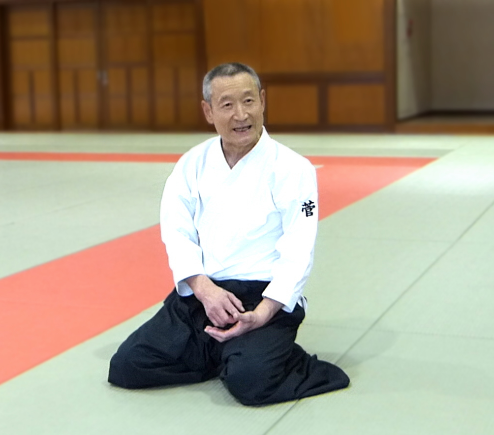 Aikido( a Japanese marshall art) master 8th dan Morito Suganuma